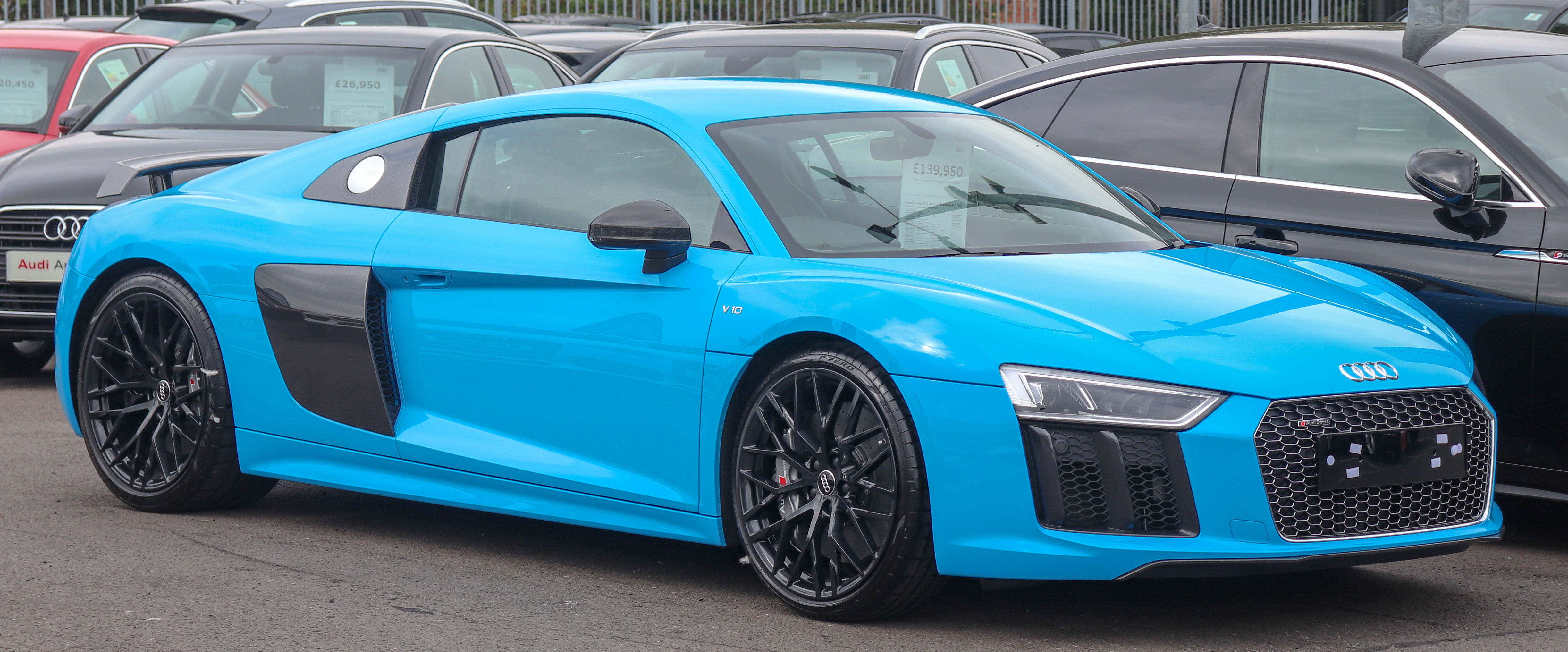 2018 Audi R8 Coupe V10 plus Front Taken in Stratford-upon-Avon